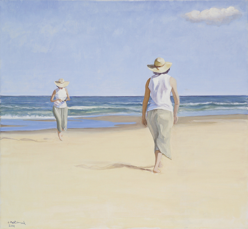 A20 Anna Pasternak, "…The Sand and the Sea…" 2001, oil on linen canvas, 92 x 100 cm